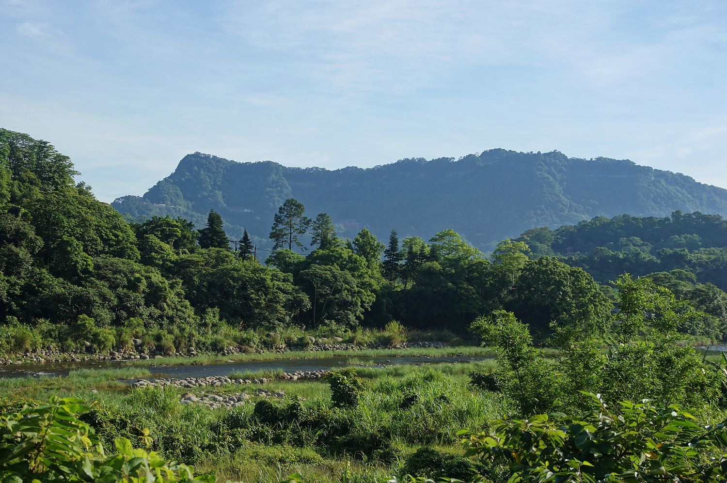 The southern view of mountain lion's head.中文（台灣）: 苗栗三灣獅頭山南面景觀。